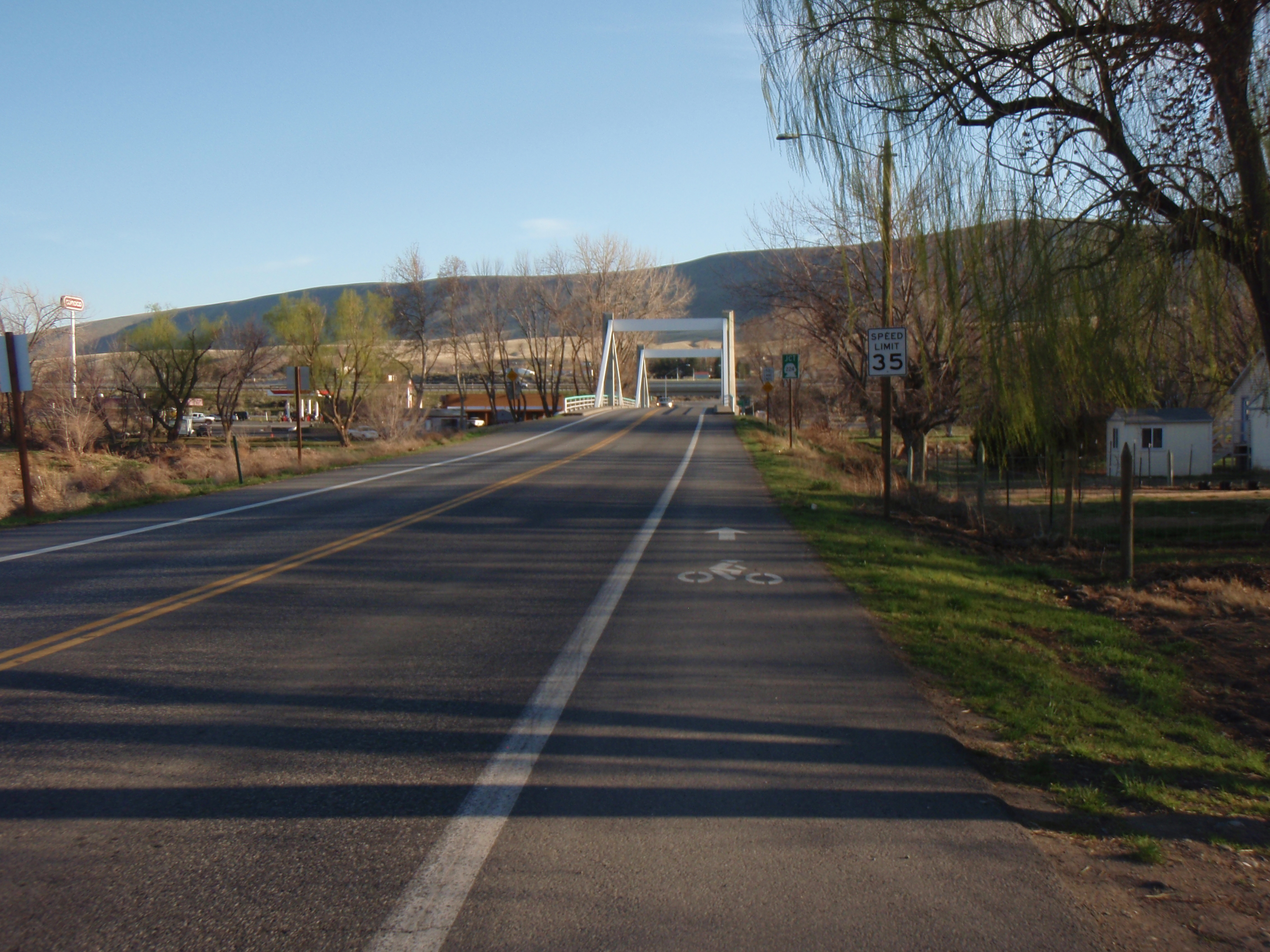 Traveling southbound on Washington State Route 225 towards the Benton City – Kiona Bridge in Benton City, Washington.